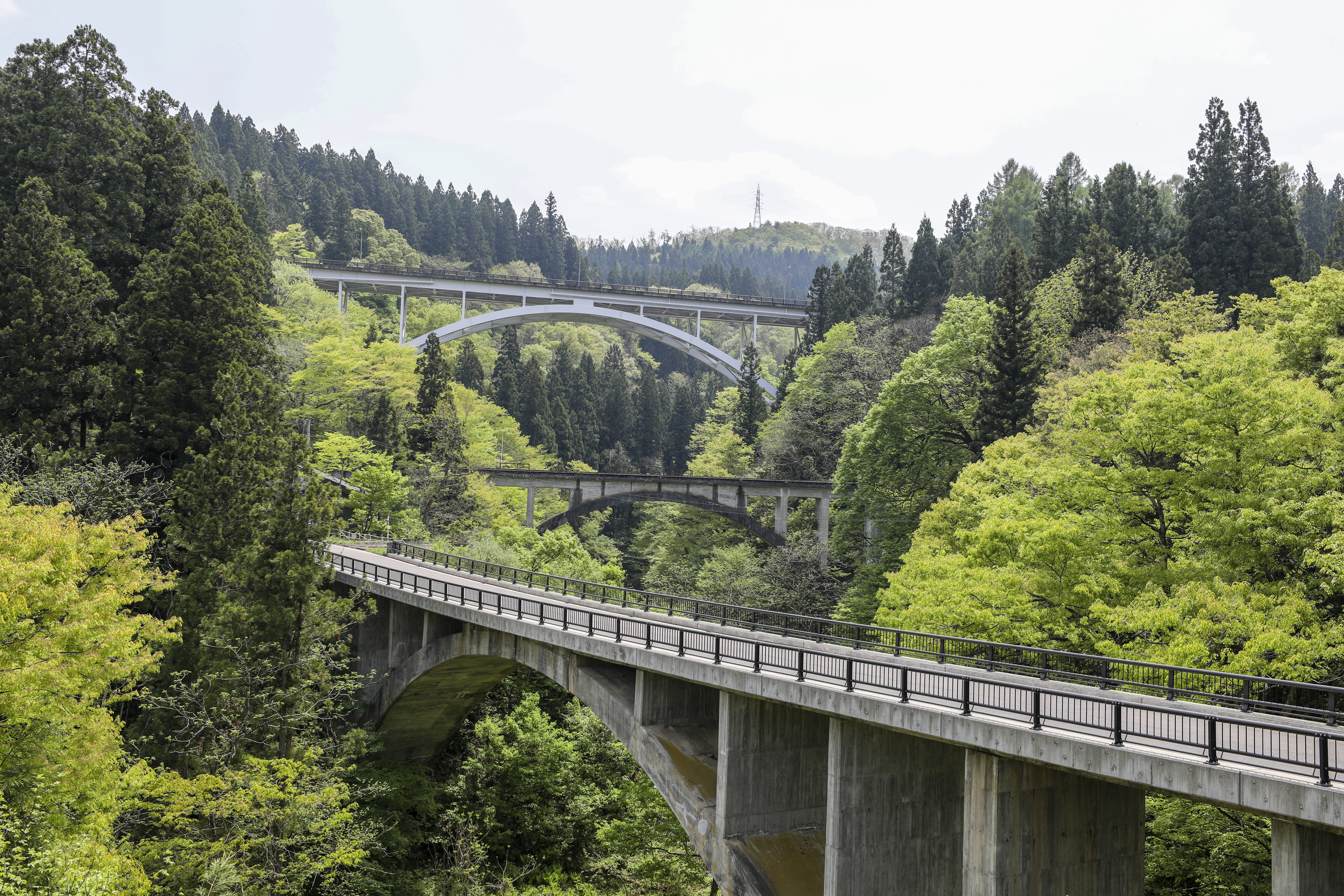 3 Bridges near Aizu-Miyashita Station in Fukushima prefecture, Japan.